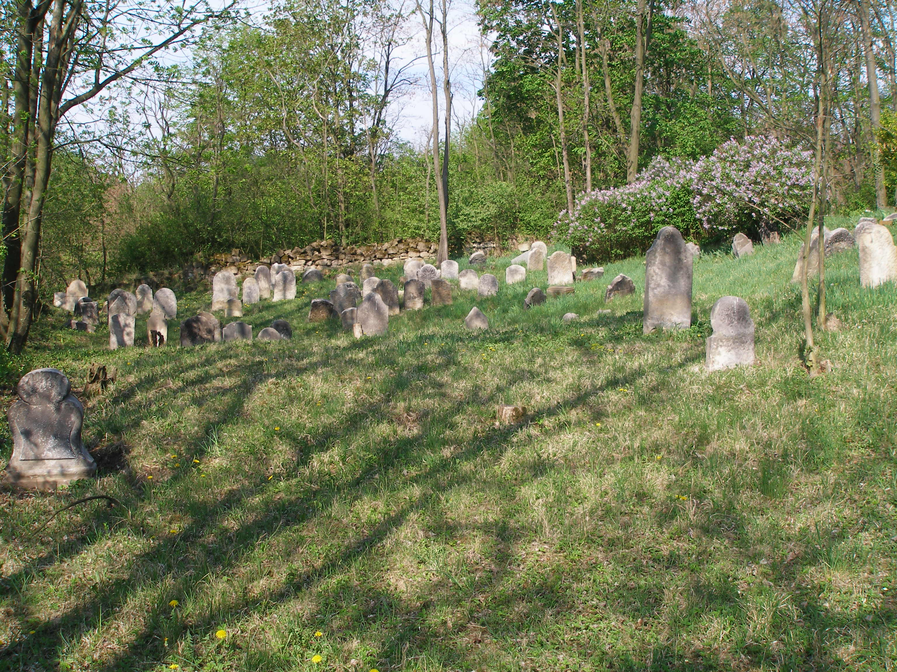 Jewish cemetery near Spomyšl.